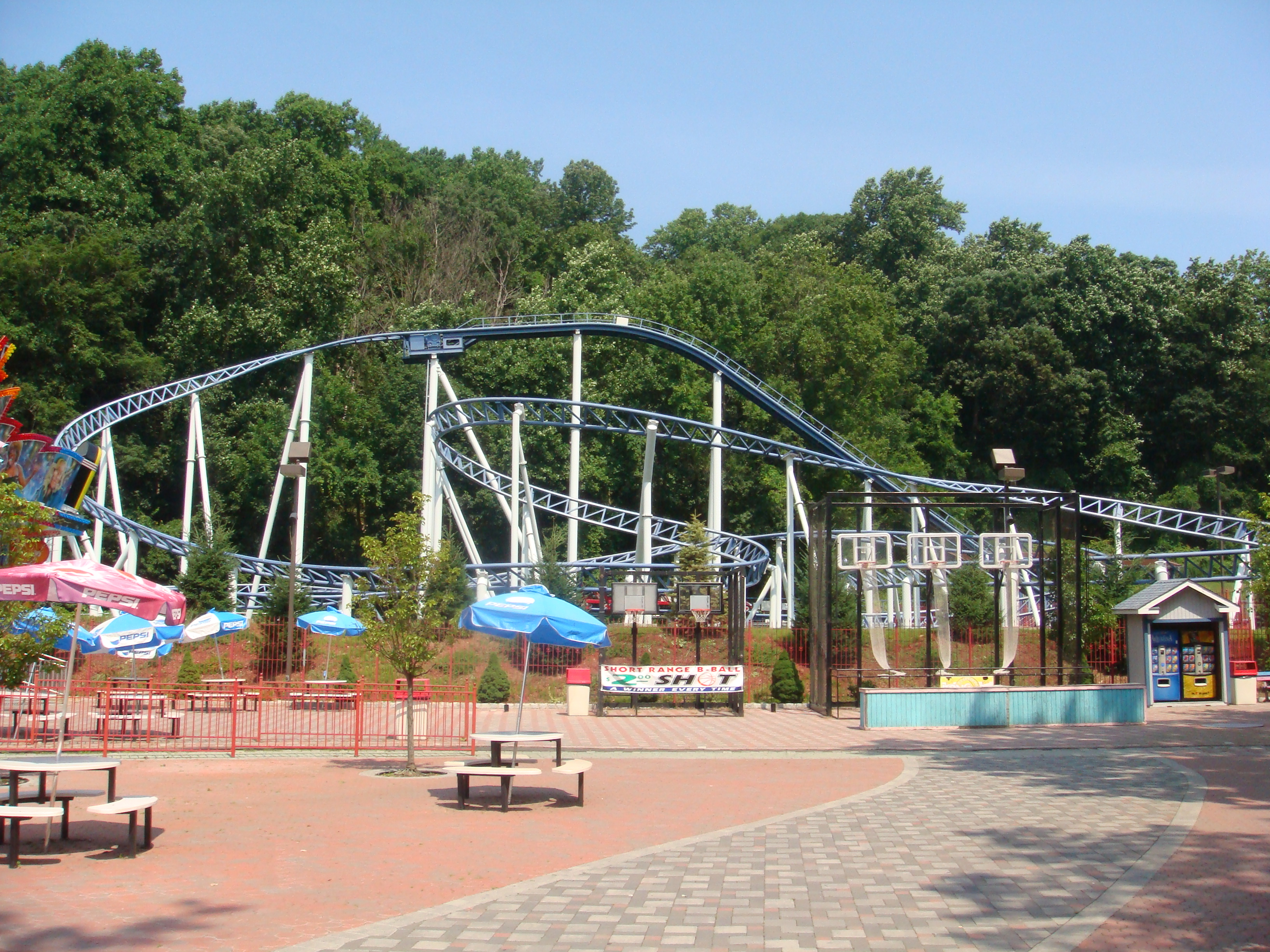 Finally got this credit on the third visit to the park!